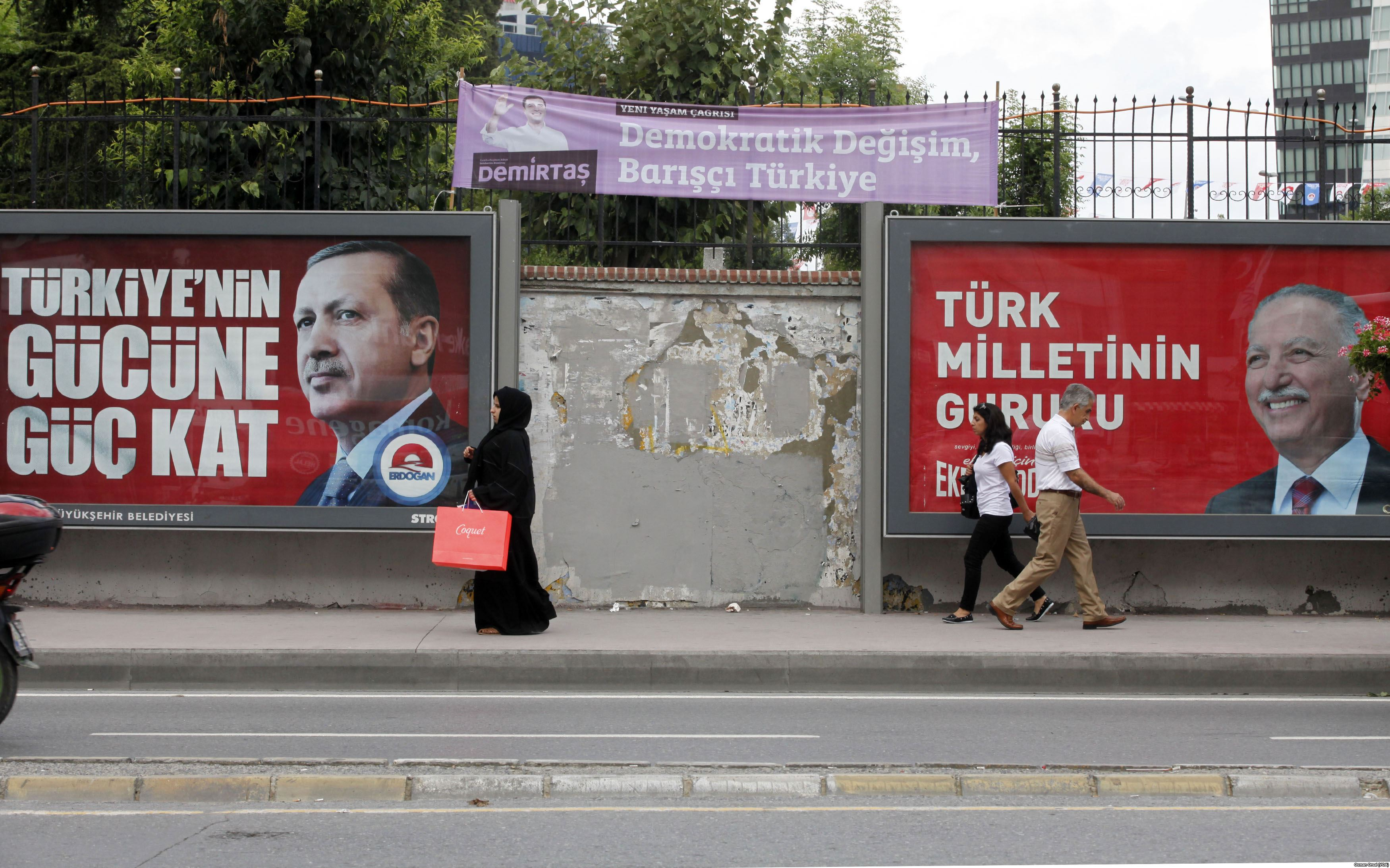 Billboards of Turkish Presidential canditates Recep Tayyip Erdoğan (L) and Ekmeleddin İhsanoğlu (R), Mecidiyeköy, Istanbul.